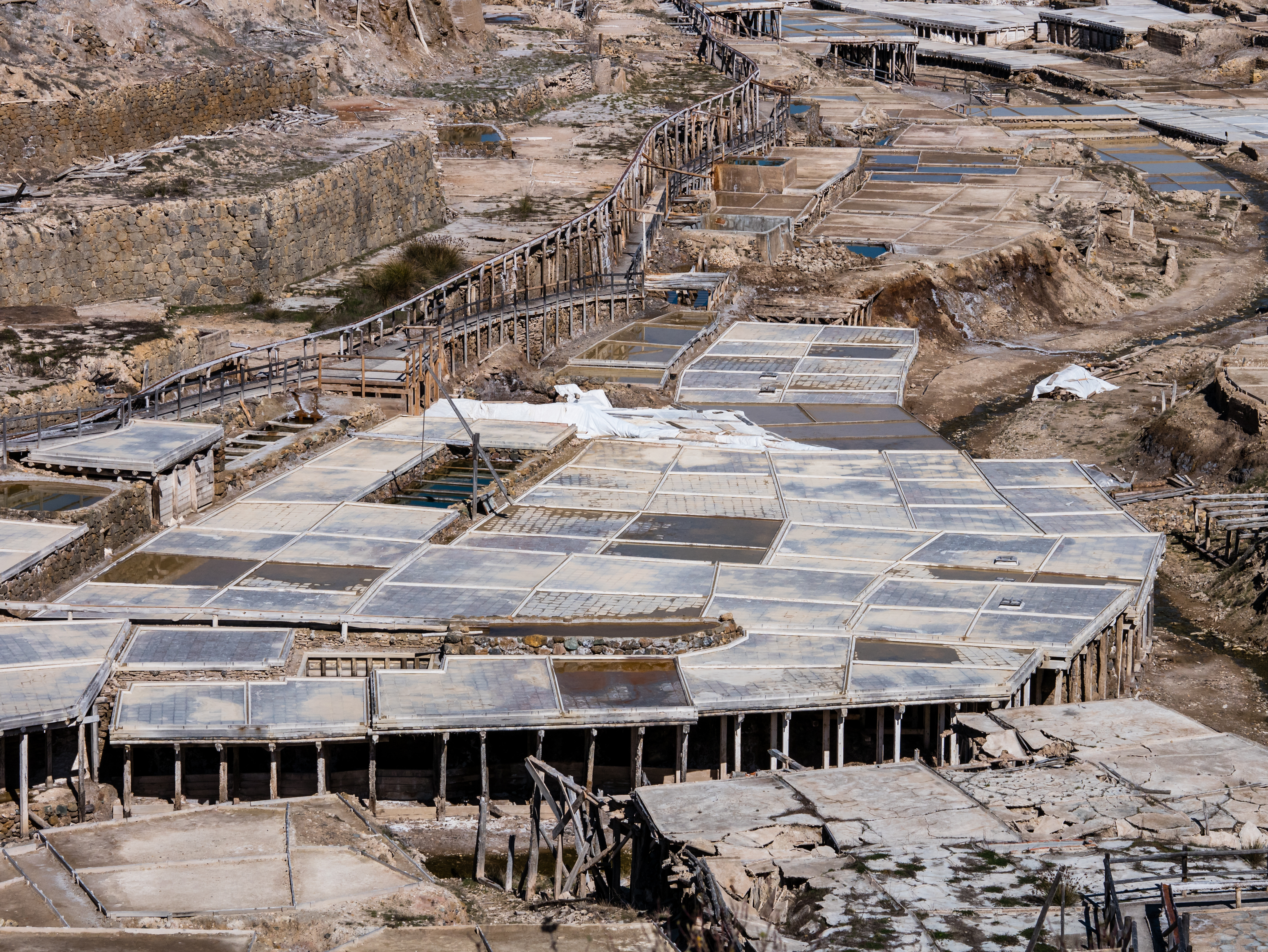 Valle Salado ("Salty Valley") at Salinas de Añana; former and reconstructed salt evaporation ponds. Álava, Basque Country, Spain